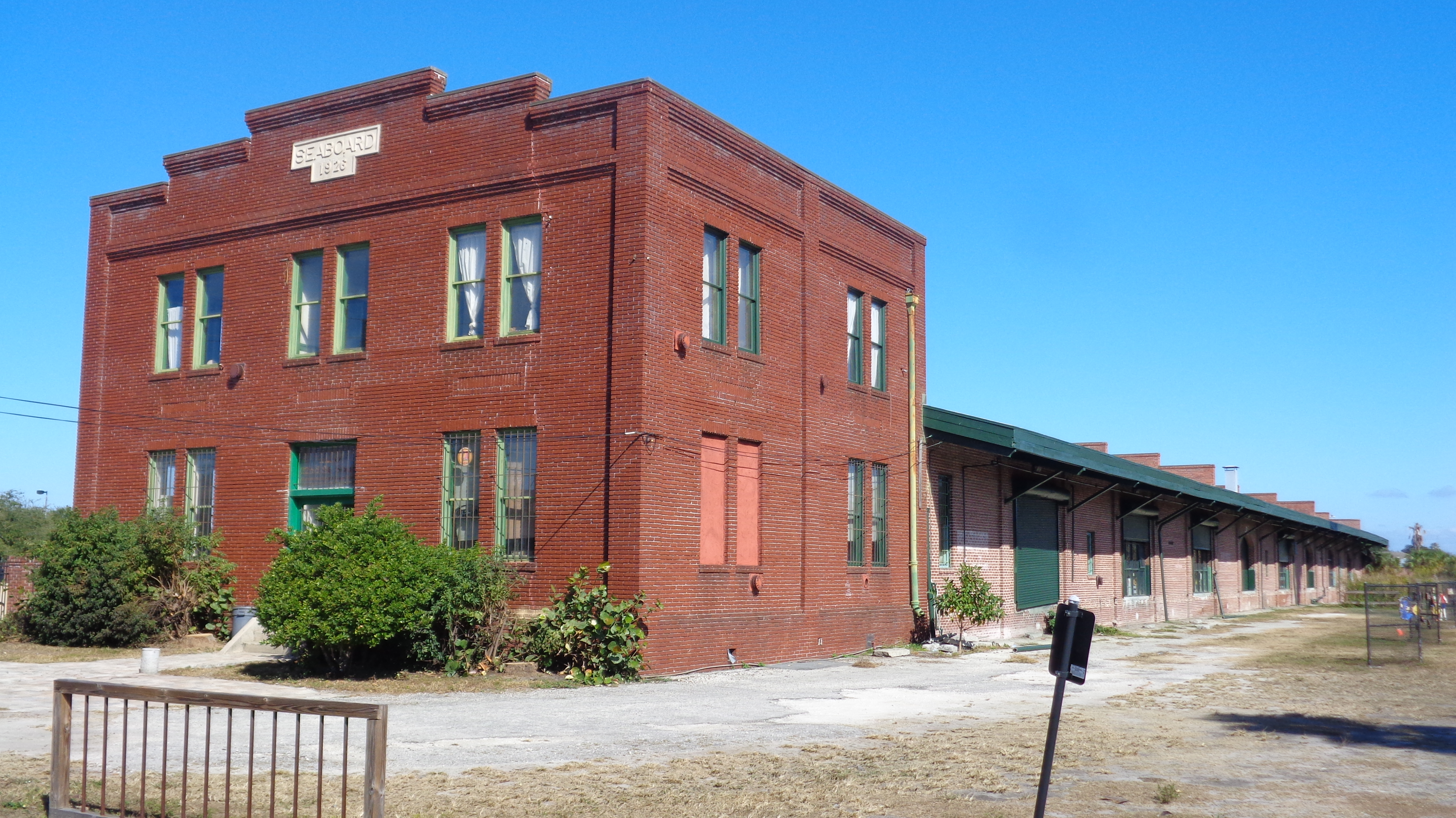 South-facing side of Seaboard Air Line Railroad depot built in 1926 in St. Petersburg, Florida.